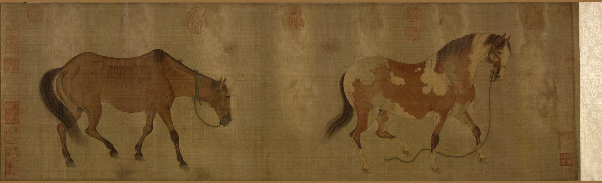 Ren Renfu: A Fat and a Thin Horse, Yuan Dynasty, Paint and ink on silk. The Palace Museum, Beijing.